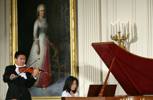 Violinist Adrian Anantawan and Amy Yang perform during the announcement of the President's Global Cultural Initiative in the East Room Monday, Sept. 25, 2006. White House photo by Shealah Craighead